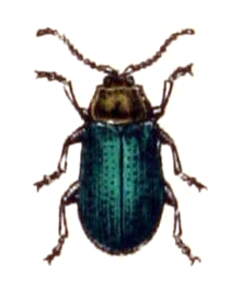 Altica quercetorum, from Calwer's Käferbuch, Table 43, Picture 13. Taxonomy was updated to 2008, using mostly the sites Fauna Europaea and BioLib. Please contact Sarefo if the determination is wrong!